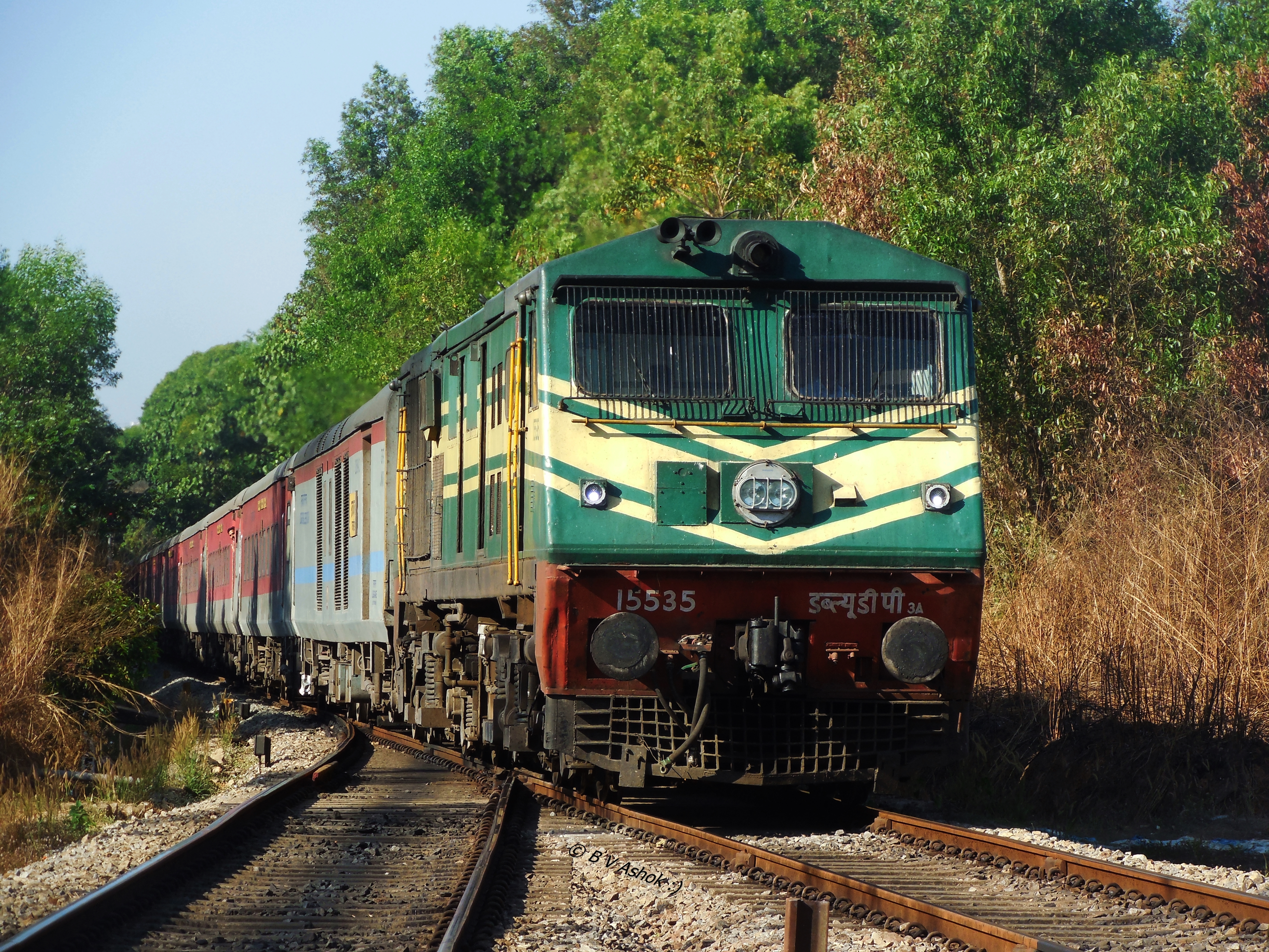 GOC WDP-3A 15535 entering Udupi for its scheduled halt with 12432 Hazrat Nizamuddin - Trivandrum Central Rajdhani Superfast Express...